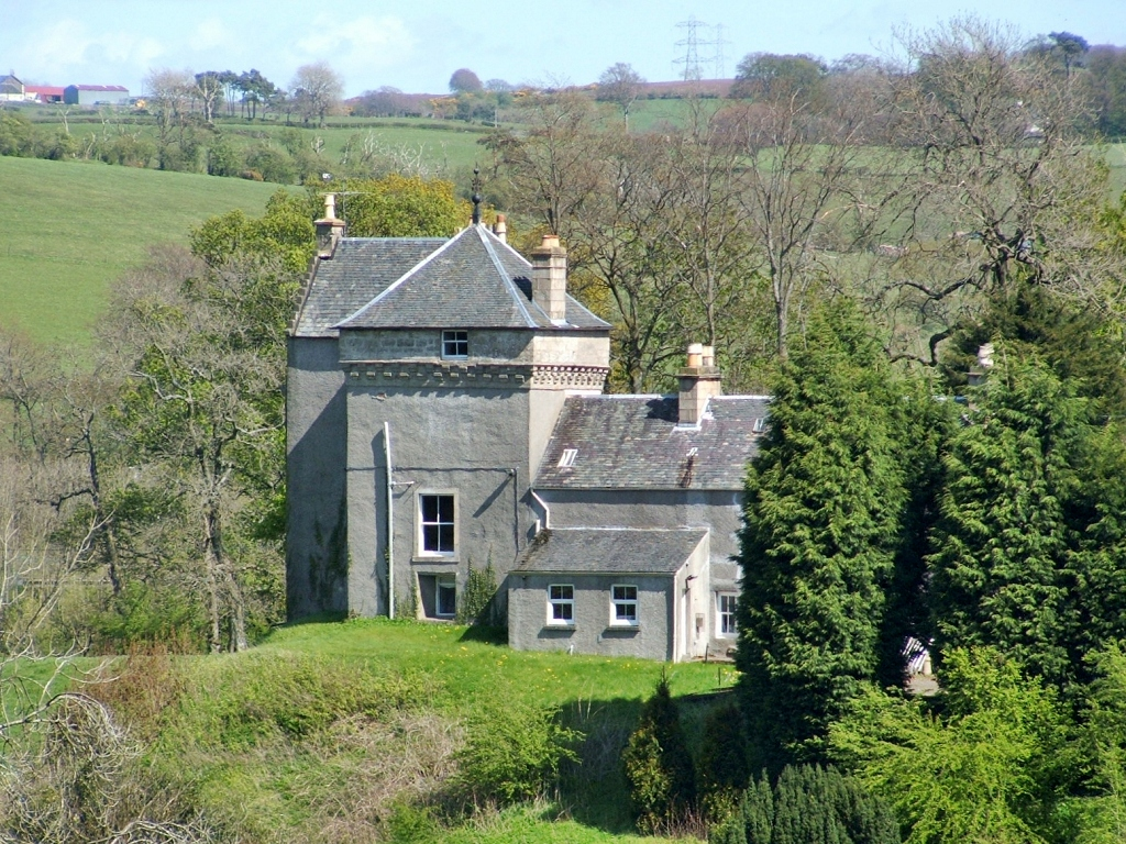 The Peel